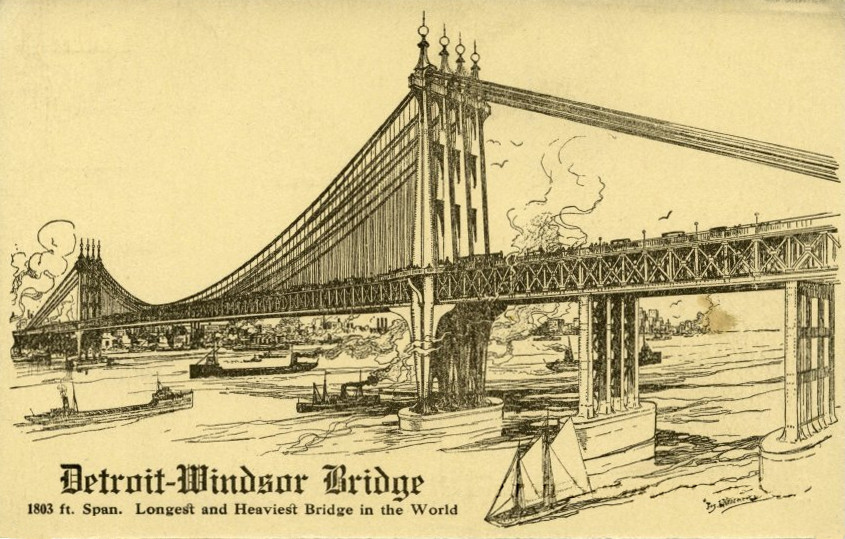 Black and white illustrated postcard depicting Charles Evan Fowler's proposed Detroit-Windsor Bridge, with several ships passing beneath it on the Detroit River. Printed on recto: 1803 ft. Span. Longest and Heaviest Bridge in the World.